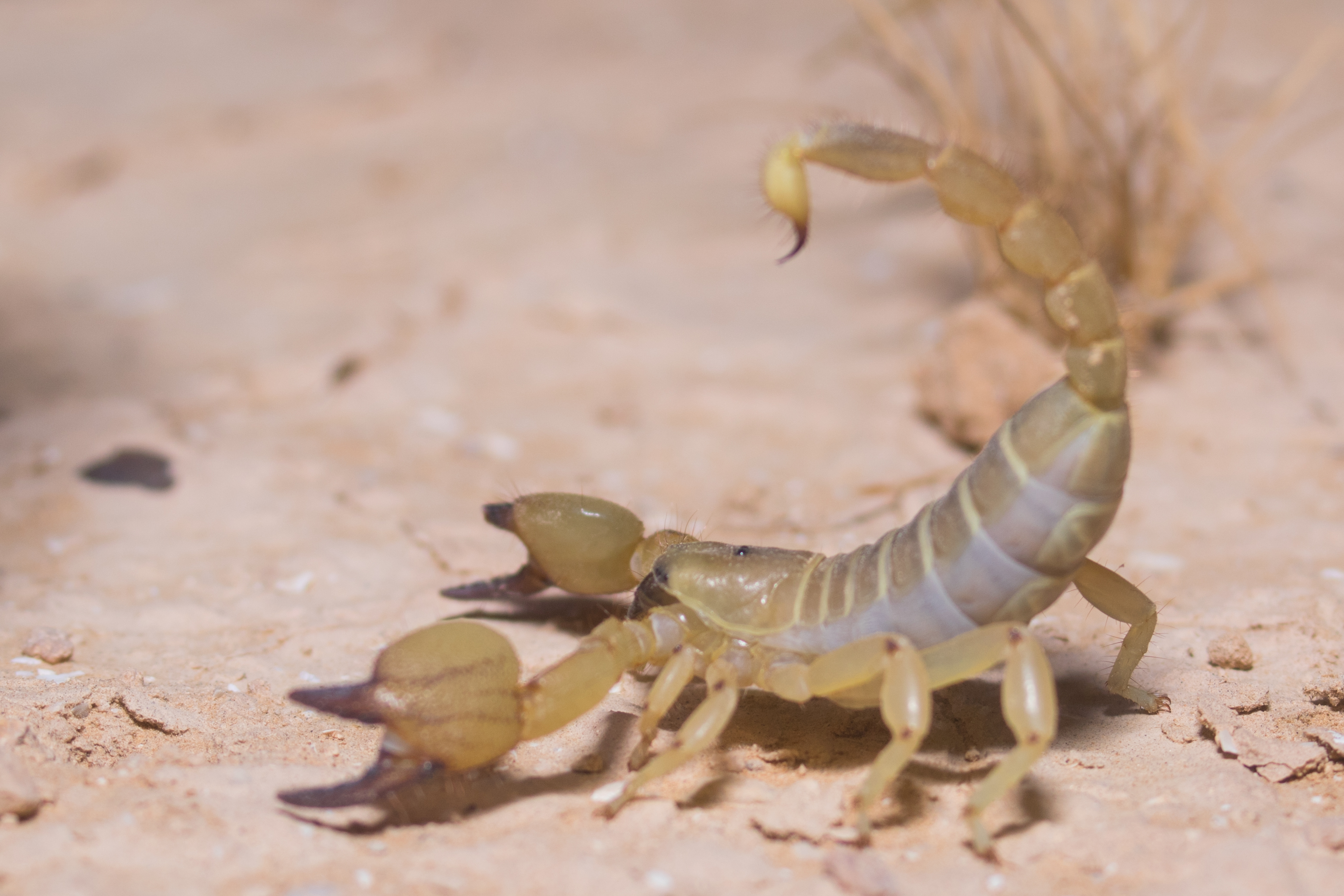 Scorpio maurus palmatus. Sde boker, Israel.